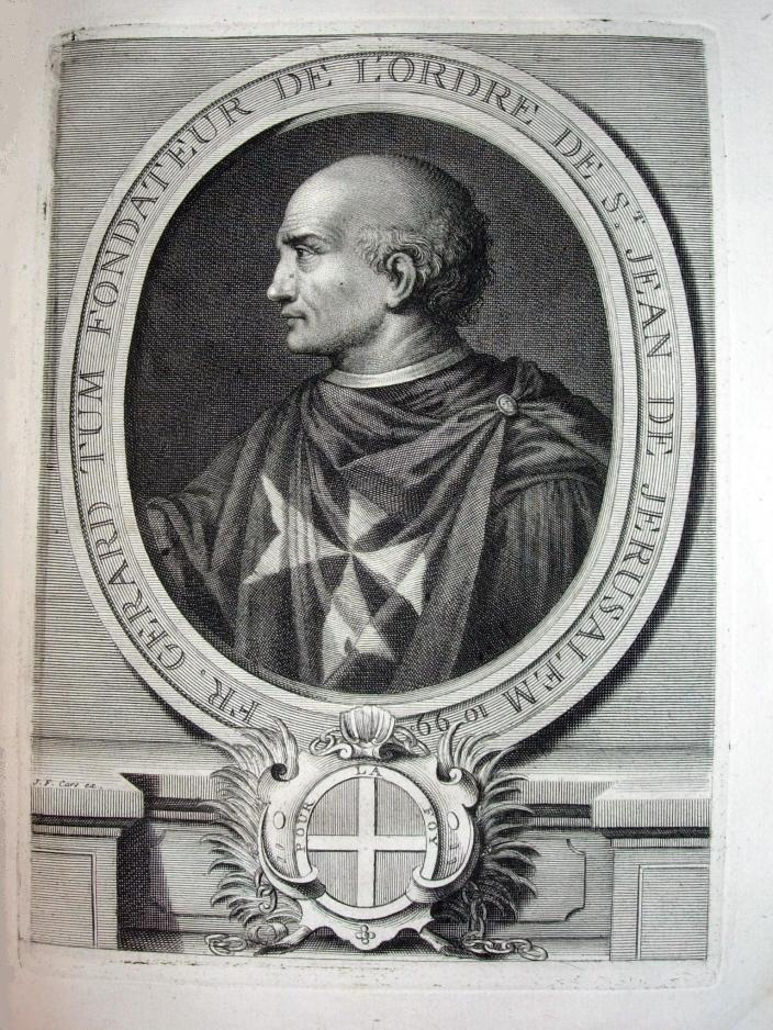 Portrait of Gerard Tum (Gerard the Blessed), entitled FR. GERARD TUM FONDATEUR DE L'ORDRE DE ST JEAN DE JERUSALEM 1099 / POUR LA FOY